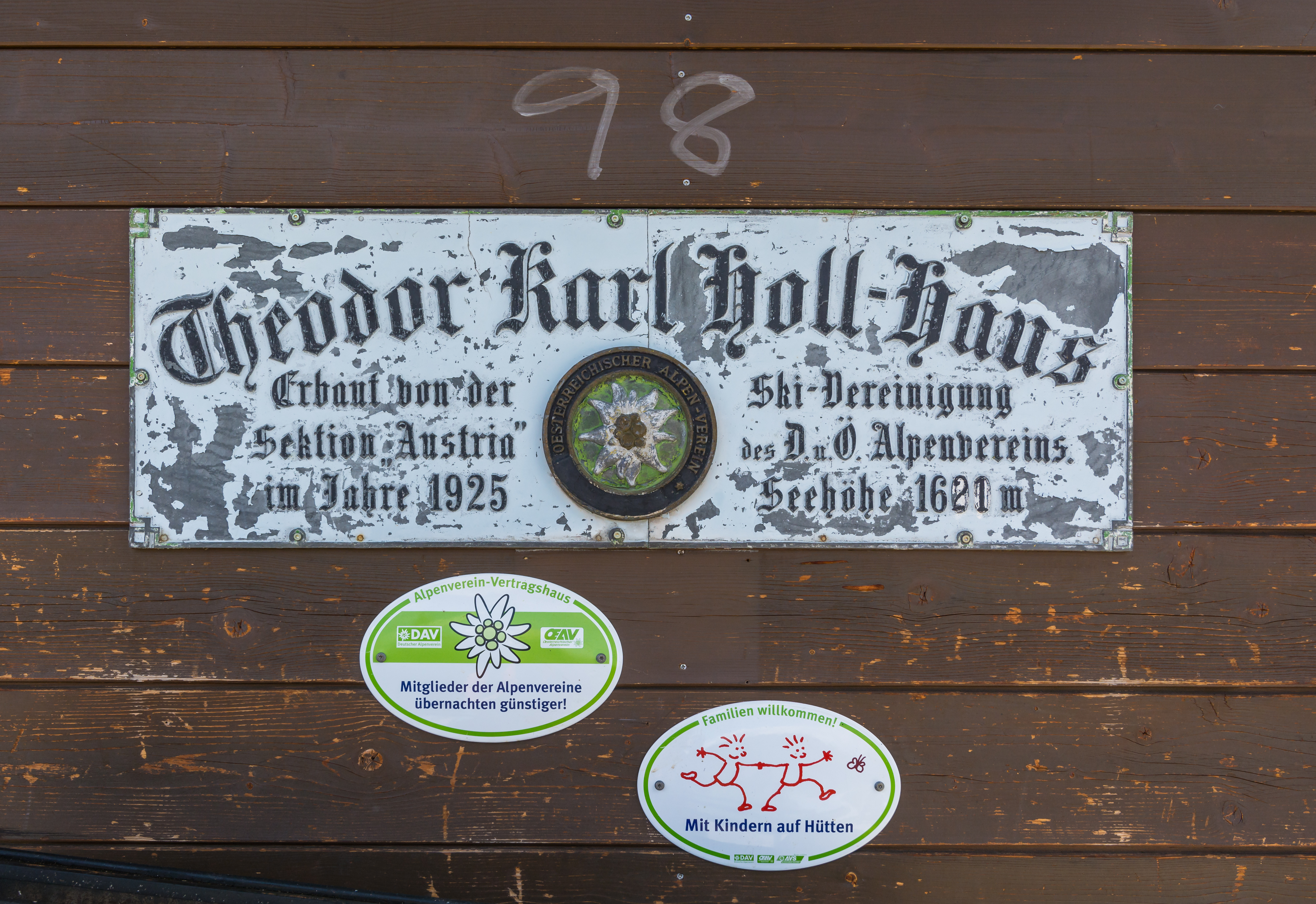 A historical plaque at the facade of the alpine hut Hollhaus at the alpine pasture Tauplitzalm in Styria / Austria notifies about the former owner. Since 2008 the house is private property and is run as mountain inn under contract with Austrian Alpine Club ÖAV.